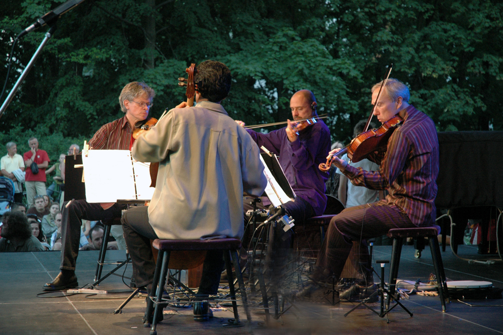 The Kronos Quartet performing in the open air in Warszawa, Poland (Królikarnia). Photograph by Henryk Kotowski in July 2006.